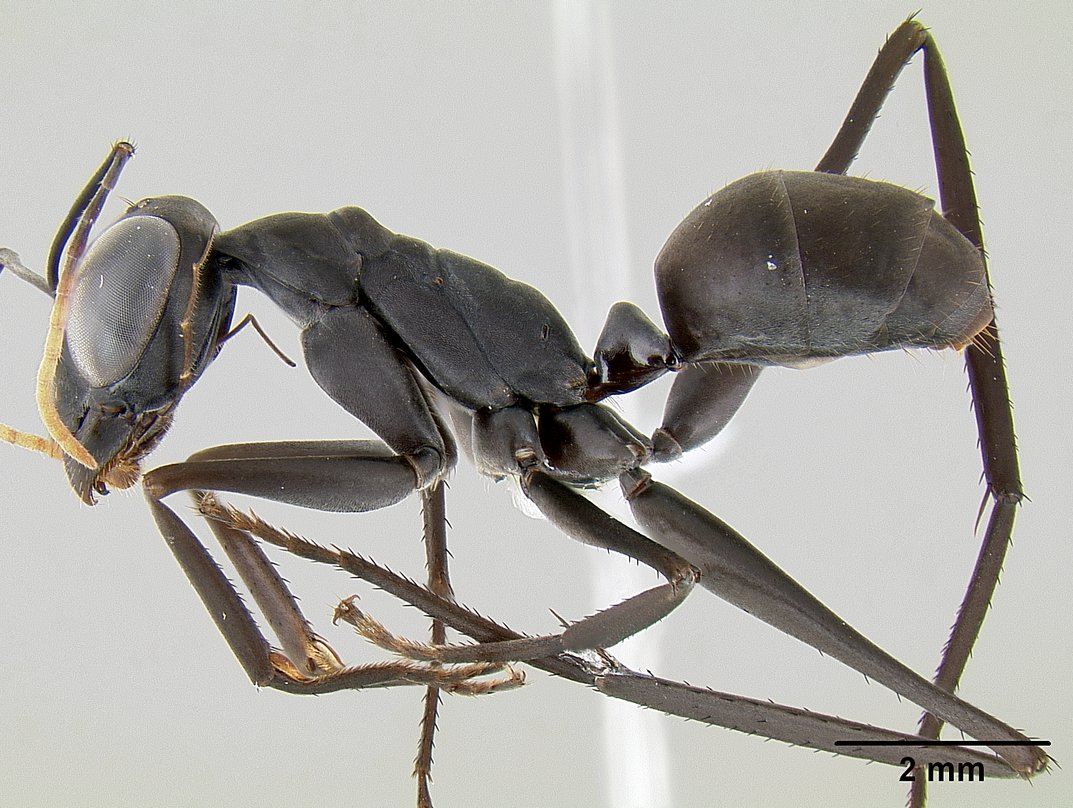 Profile view of ant Gigantiops destructor specimen casent0106169.